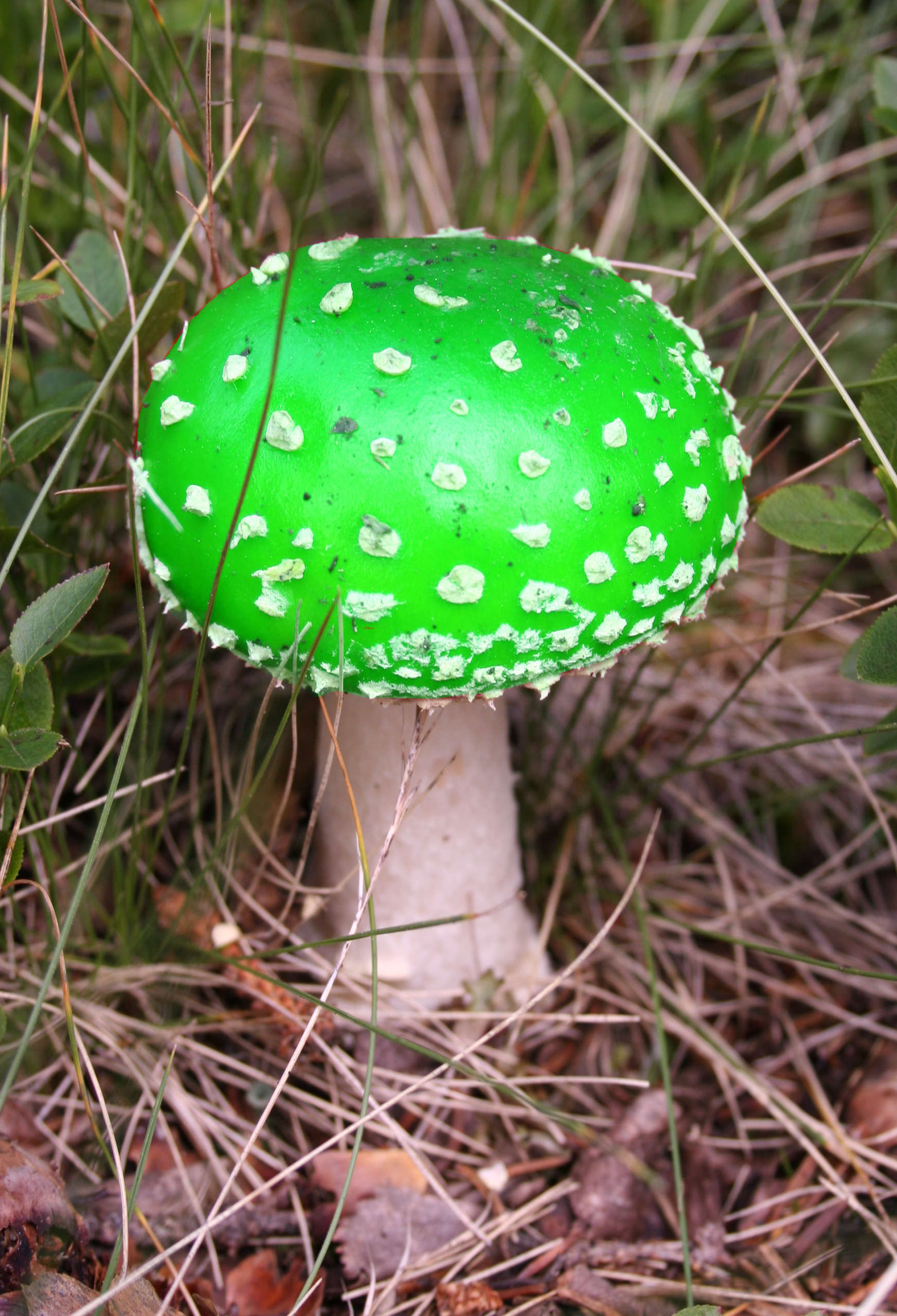 Color-changed photo of Amanita muscaria (fly agaric), Norway. Useful for representing extra-life items in video games without being a derivative work of any specific non-free video game.